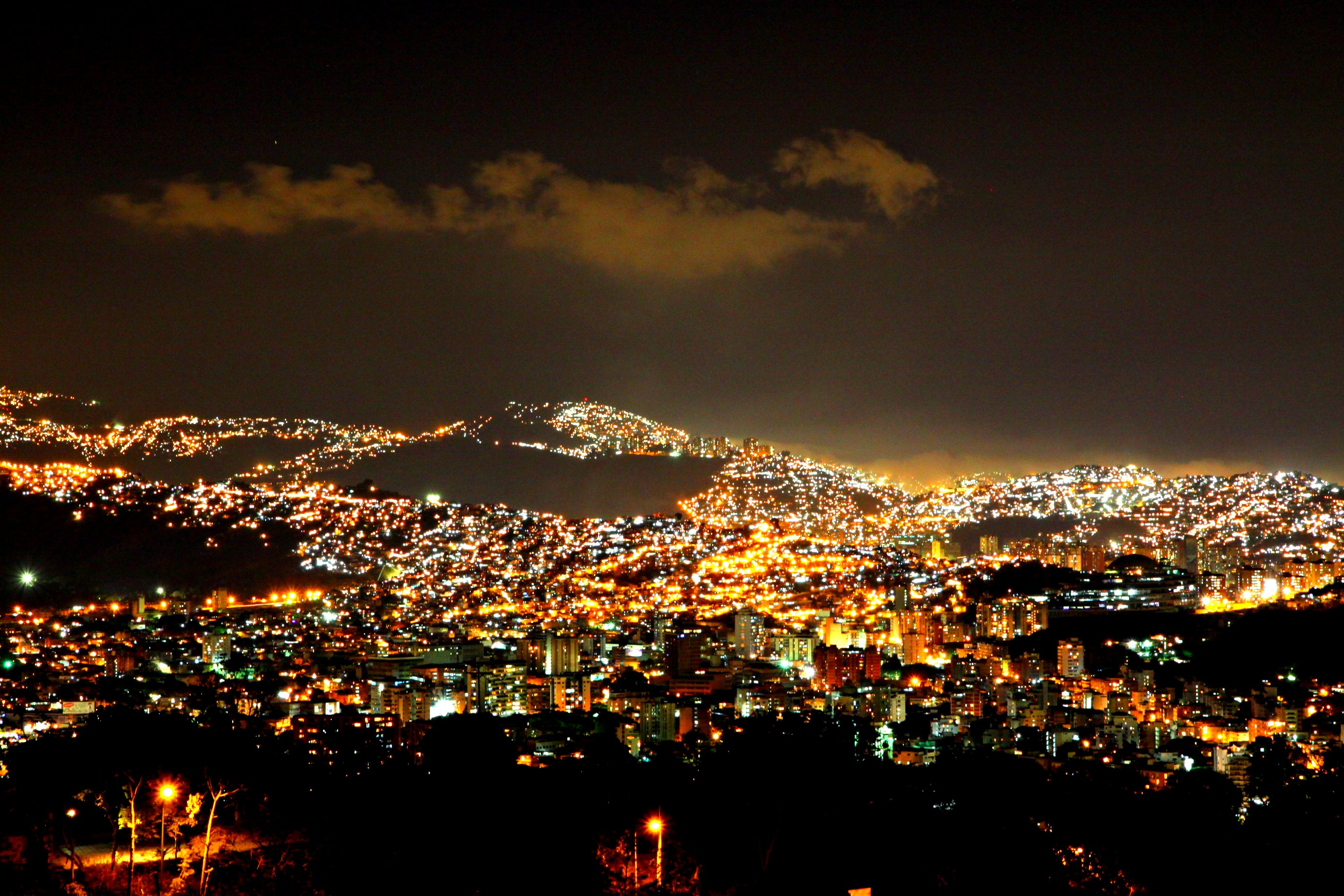 Caracas by night....from home